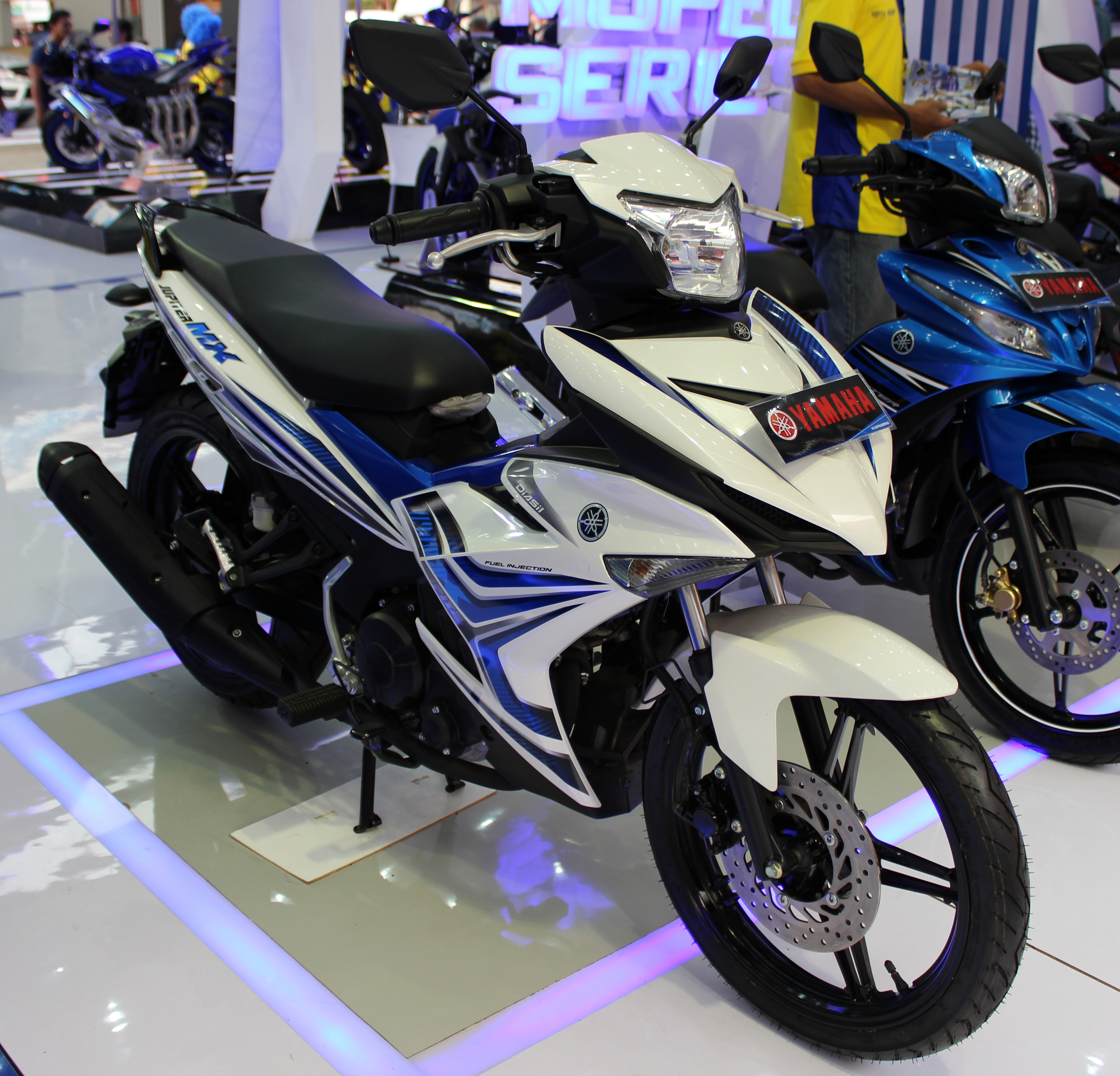 A Yamaha Jupiter MX 150 photographed in Jakarta Fair 2016, Jakarta, Indonesia on June 21, 2016.